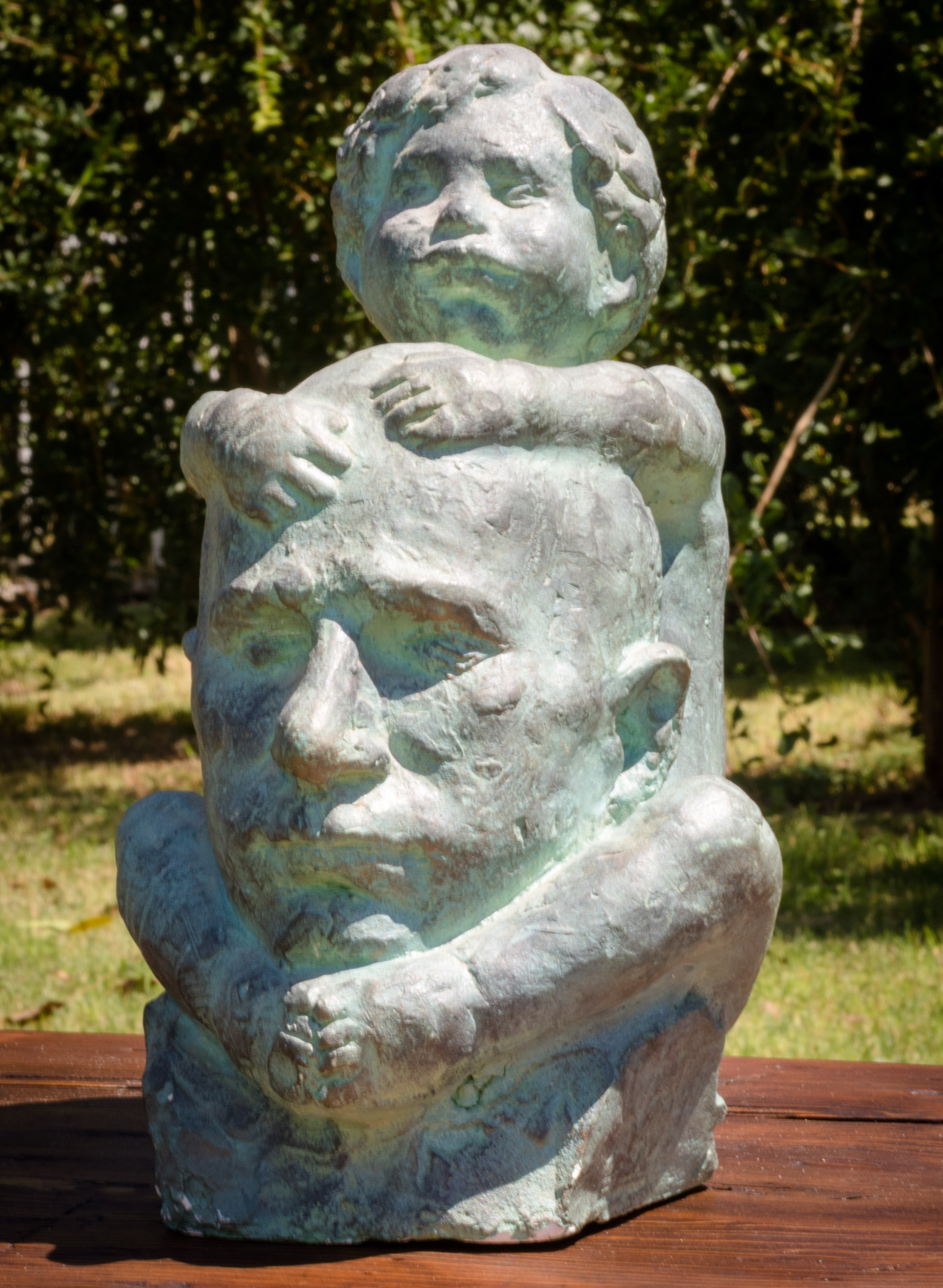 Self Portrait with son on his shouders by Ted Golubic.